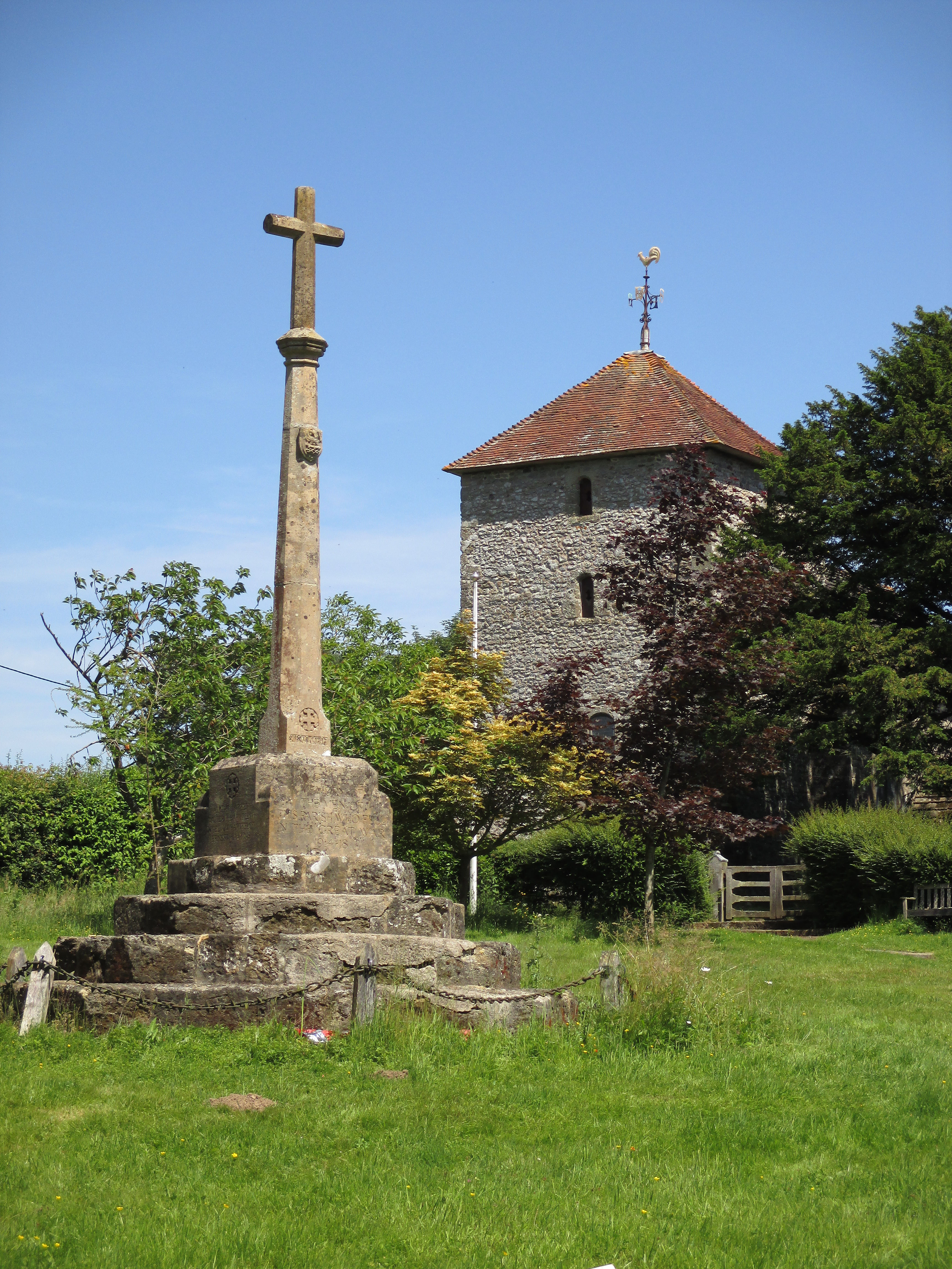 The war memorial and St Mary's Church, Stopham, West Sussex.